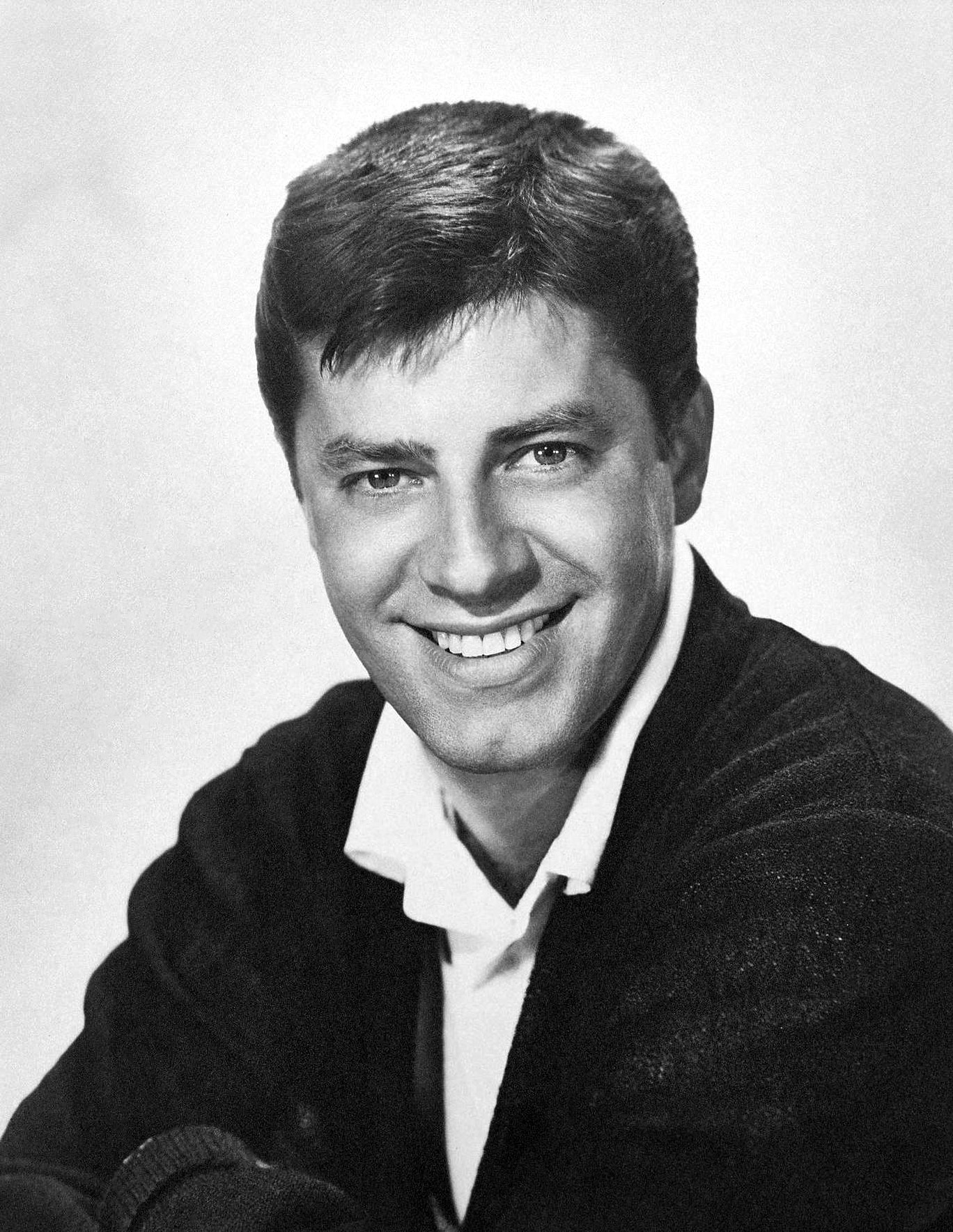 Silver gelatin publicity photo of Jerry Lewis circa 1957.